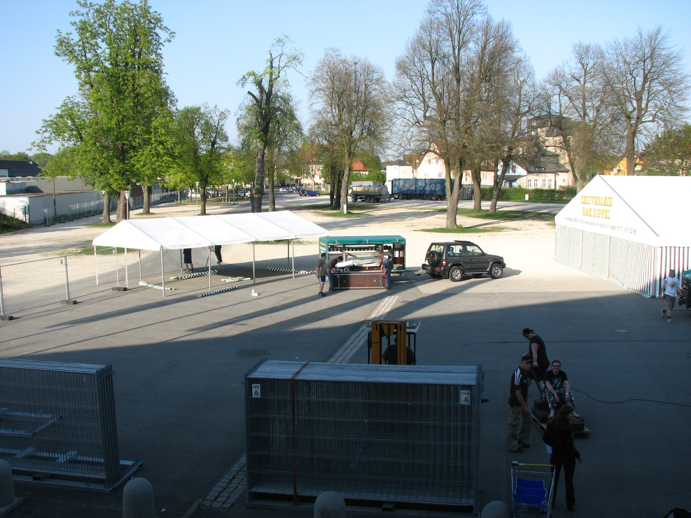 Building-up the Ragnarök-Festival 2009